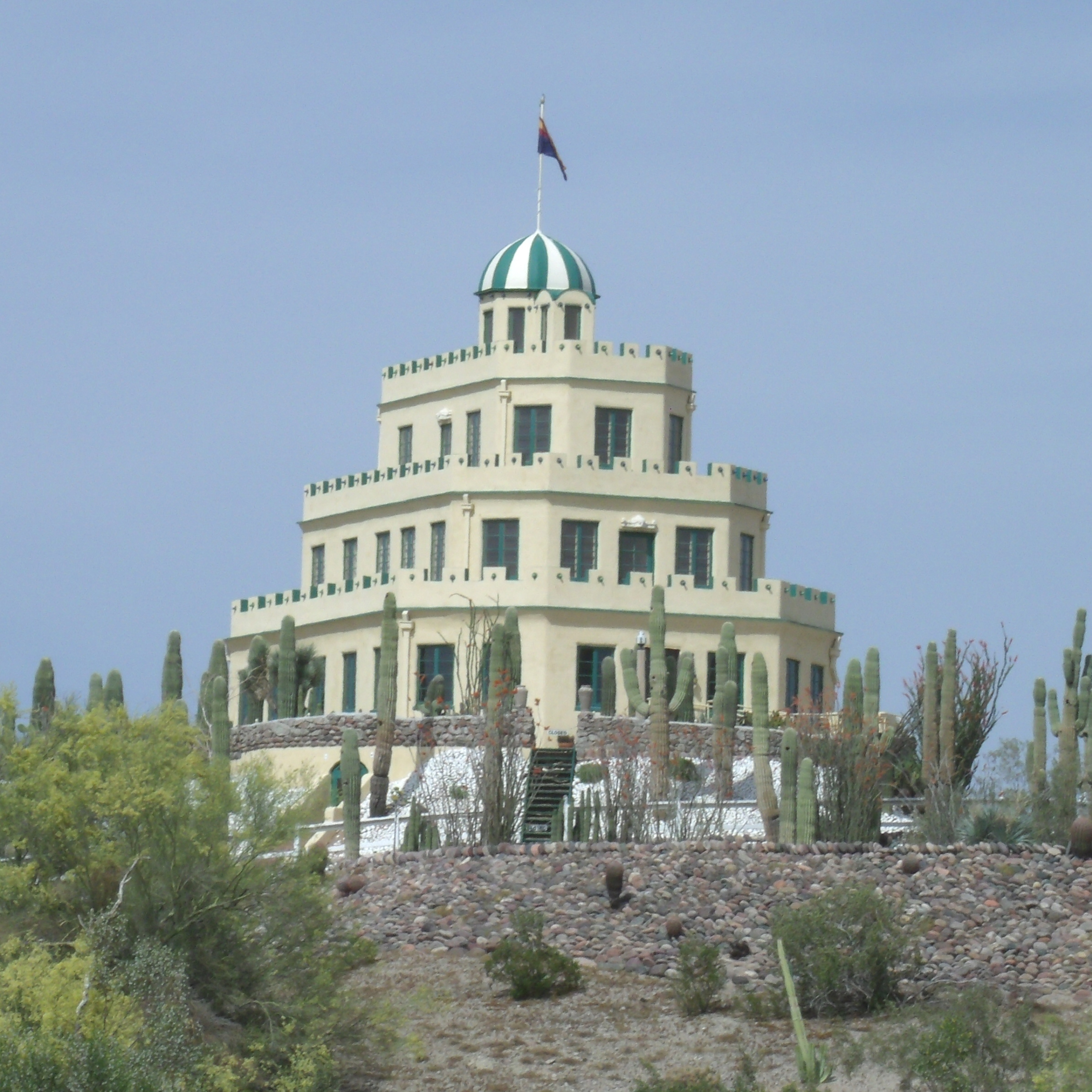 Historic Tovrea Castle, built from December 1929 to January 1931